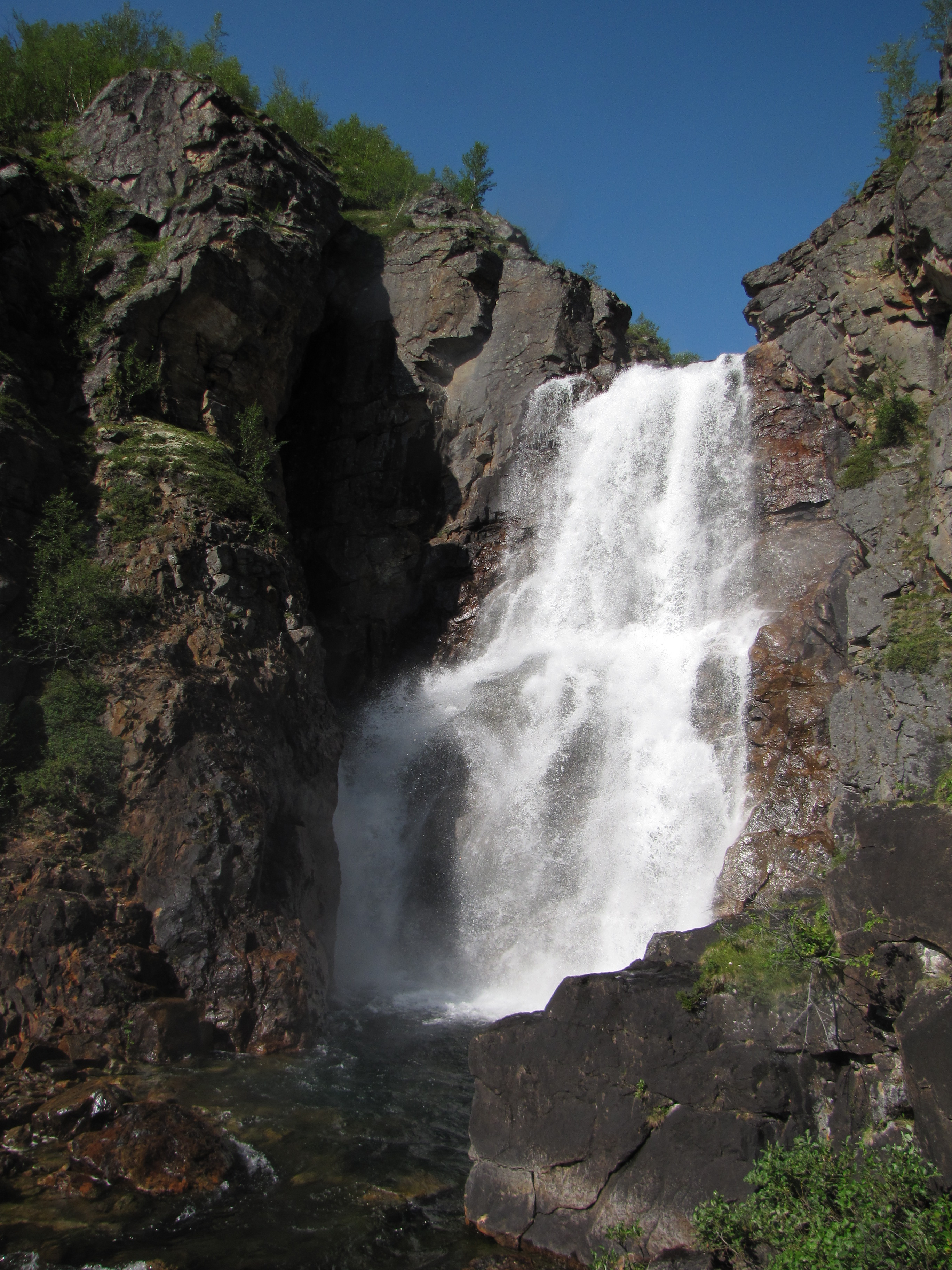 Fiellun putous, the most famous waterfall of Kevo Strict Nature Reserve, Finland